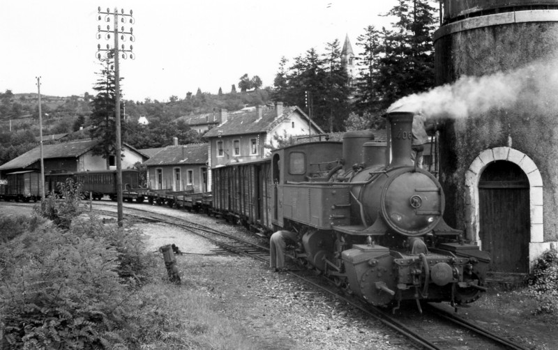 CFD Vivarais network. Locomotive n° 406 hauling a freigth train in Lamastre-Le Cheylard.